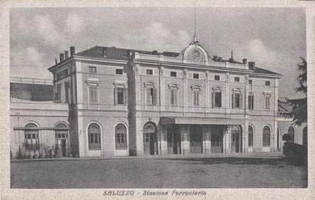 Saluzzo railway station